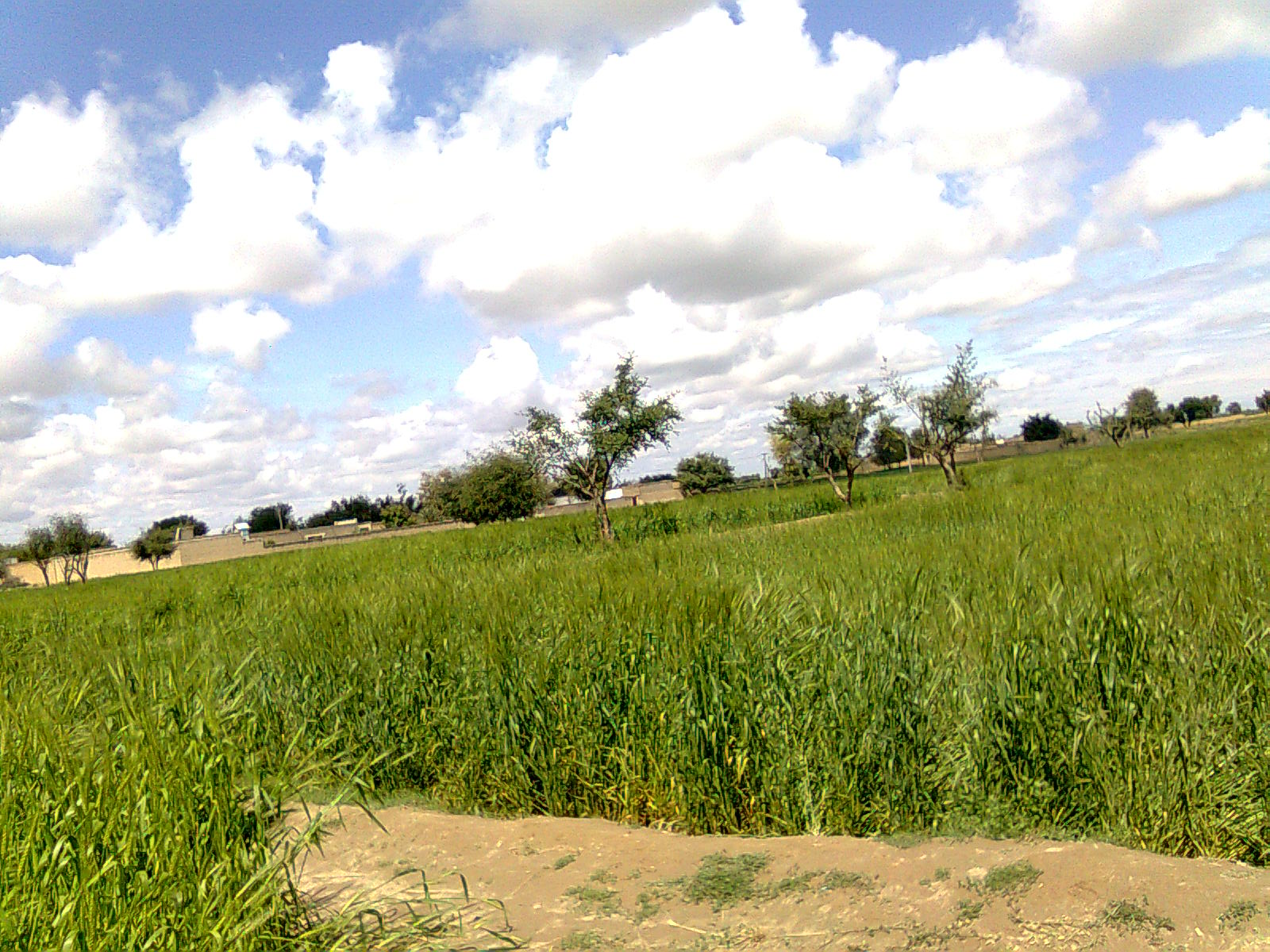 Beautiful village Sherikhel Lakki Marwat in North West Pakistan